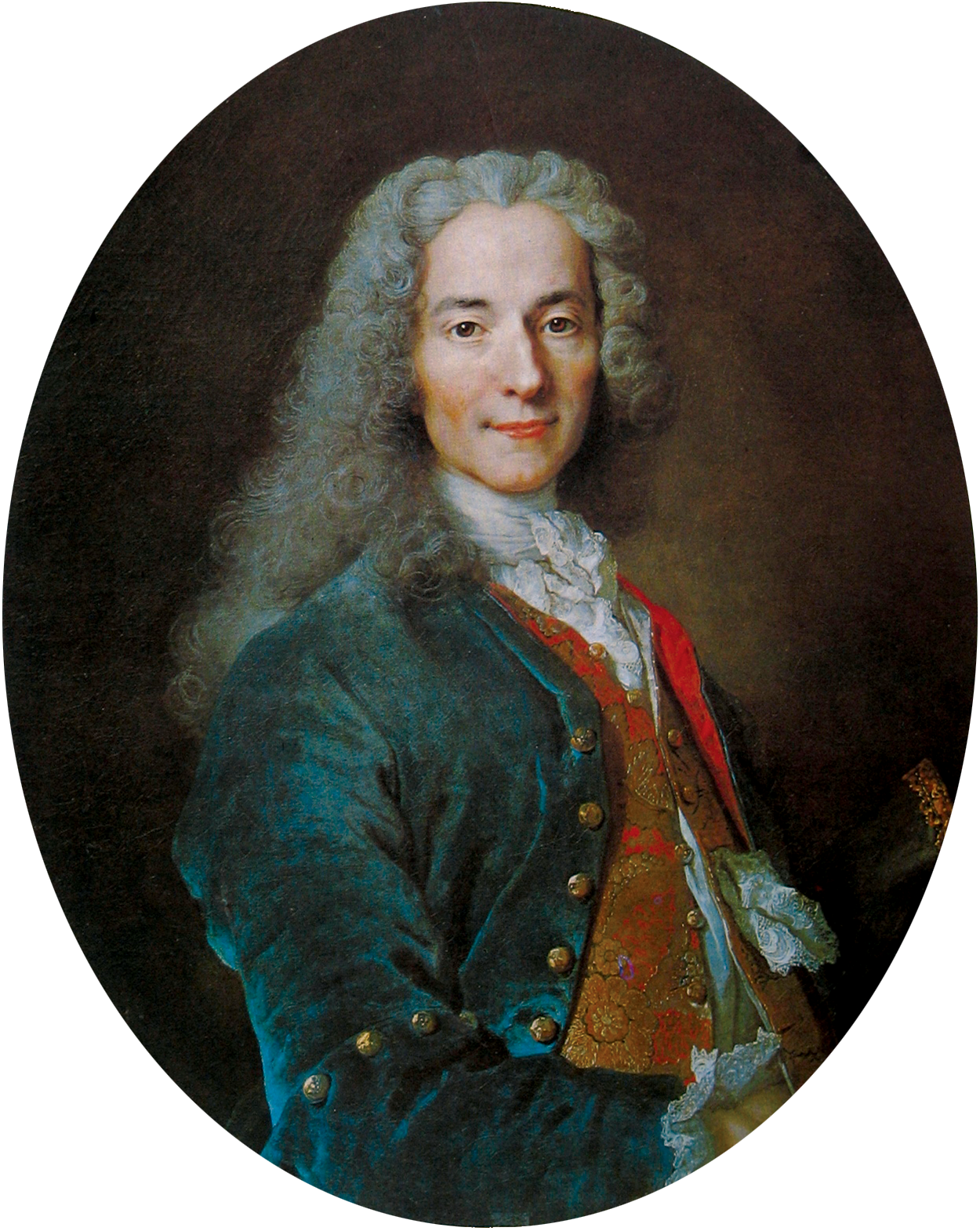 Depicted person: Voltaire – French writer, historian, and philosopher